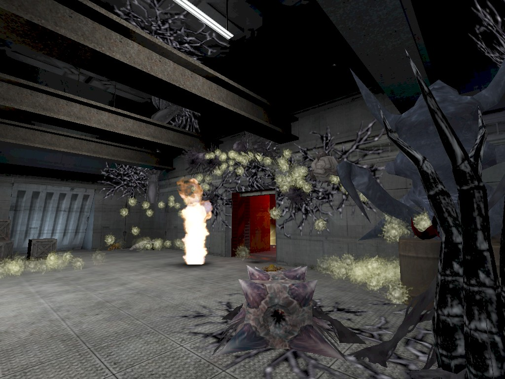 Screenshot of alien base in game Tremulous with exploding grenade